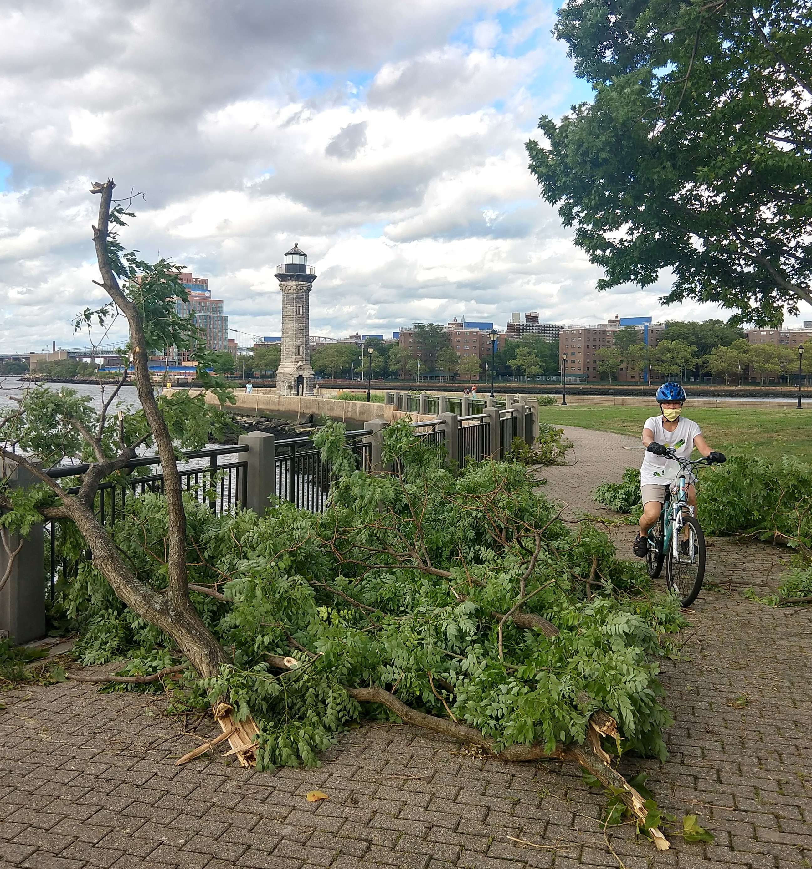 Storm debris on New York City's Roosevelt Island.